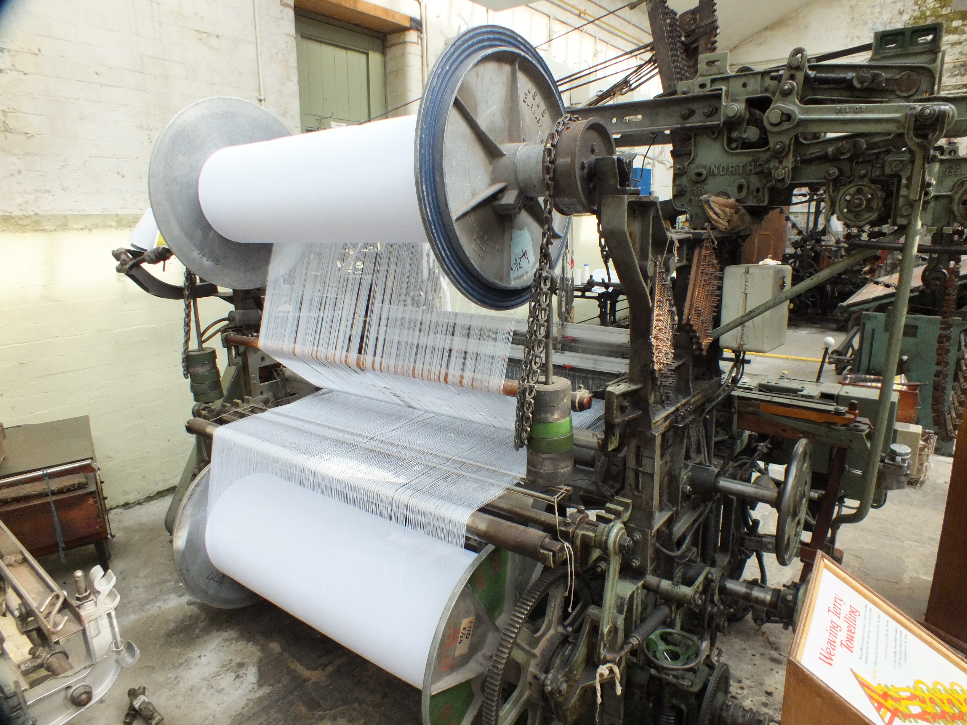 This item is in the collectionQueen Street Mill in Harle Syke, a suburb to the north-east of Burnley, Lancashire. The mill was built in 1894 for the Queen Street Manufacturing Company. It closed on 12 March 1982 and was mothballed, but was subsequently taken over by Burnley Borough Council and used as a museum. In the 1990s ownership passed to Lancashire Museums. Unique in being the world's only surviving steam-driven weaving shed.